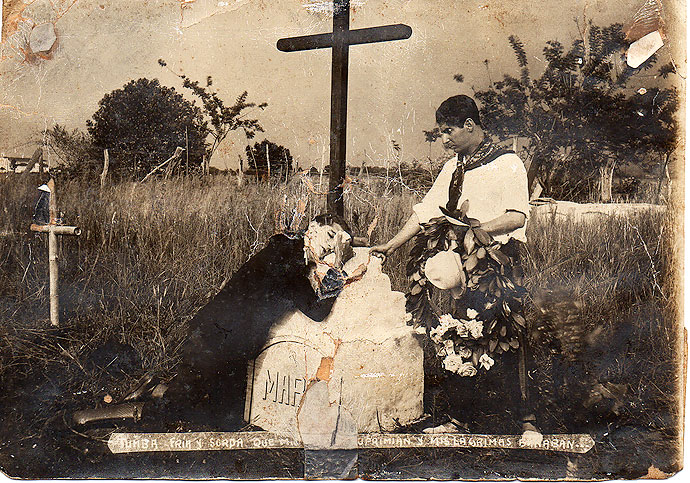 Still from María (1922) by Máximo Calvo Olmedo and Alfredo del Diestro.